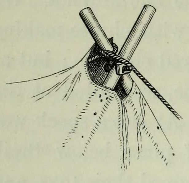 Image on page 134 of Scrambles amongst the Alps